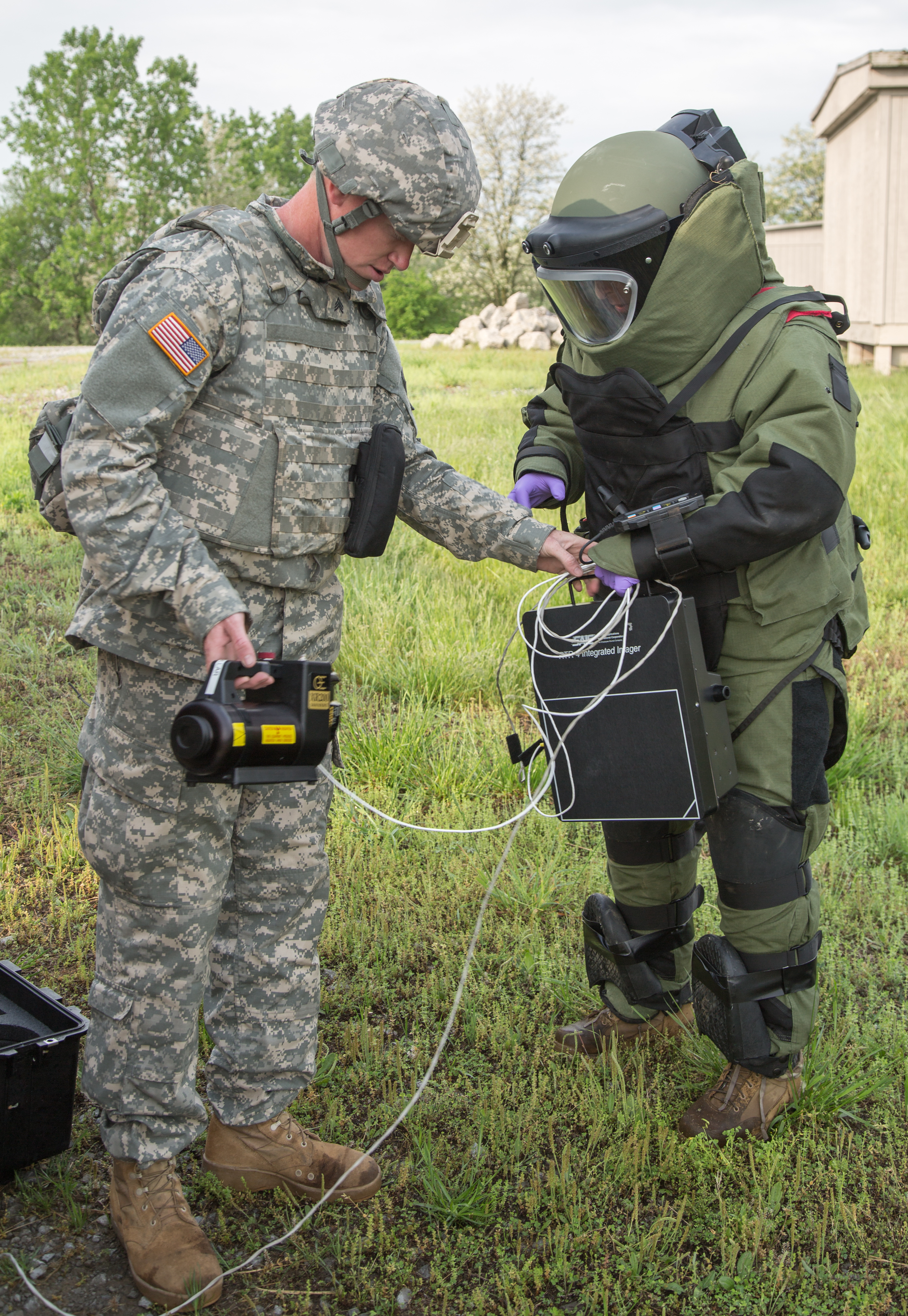 U.S. Army Sgt. Jacob Holt, assigned to the 666th Ordnance Company (EOD), 441st Ordnance Battalion (EOD), Alabama National Guard, hands a portable x-ray machine to Staff Sgt. Kenneth Dollar in an EOD 9 bomb suit during a scenario for the 111th Ordnance Group (EOD) Team of the Year 2016 competition at the Wendell H. Ford Regional Training Center, Greenville, Ky., April 27, 2016. The weeklong competition tests teams, consisting of 2 or 3 EOD technicians, in various scenarios they may encounter in situations around the world, to determine the most physically, mentally, tactically, and technically fit team to represent their command in future competition. (U.S. Army photo by Sgt. Ashley Marble/Released) Unit: 55th Combat Camera